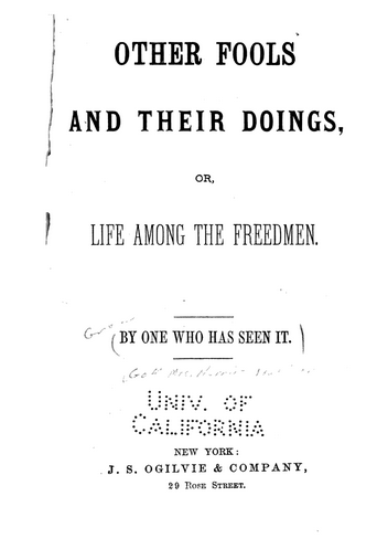 Other Fools and Their Doings, Or, Life Among the Freedmen, By Harriet Newell Kneeland Goff, One who has seen it